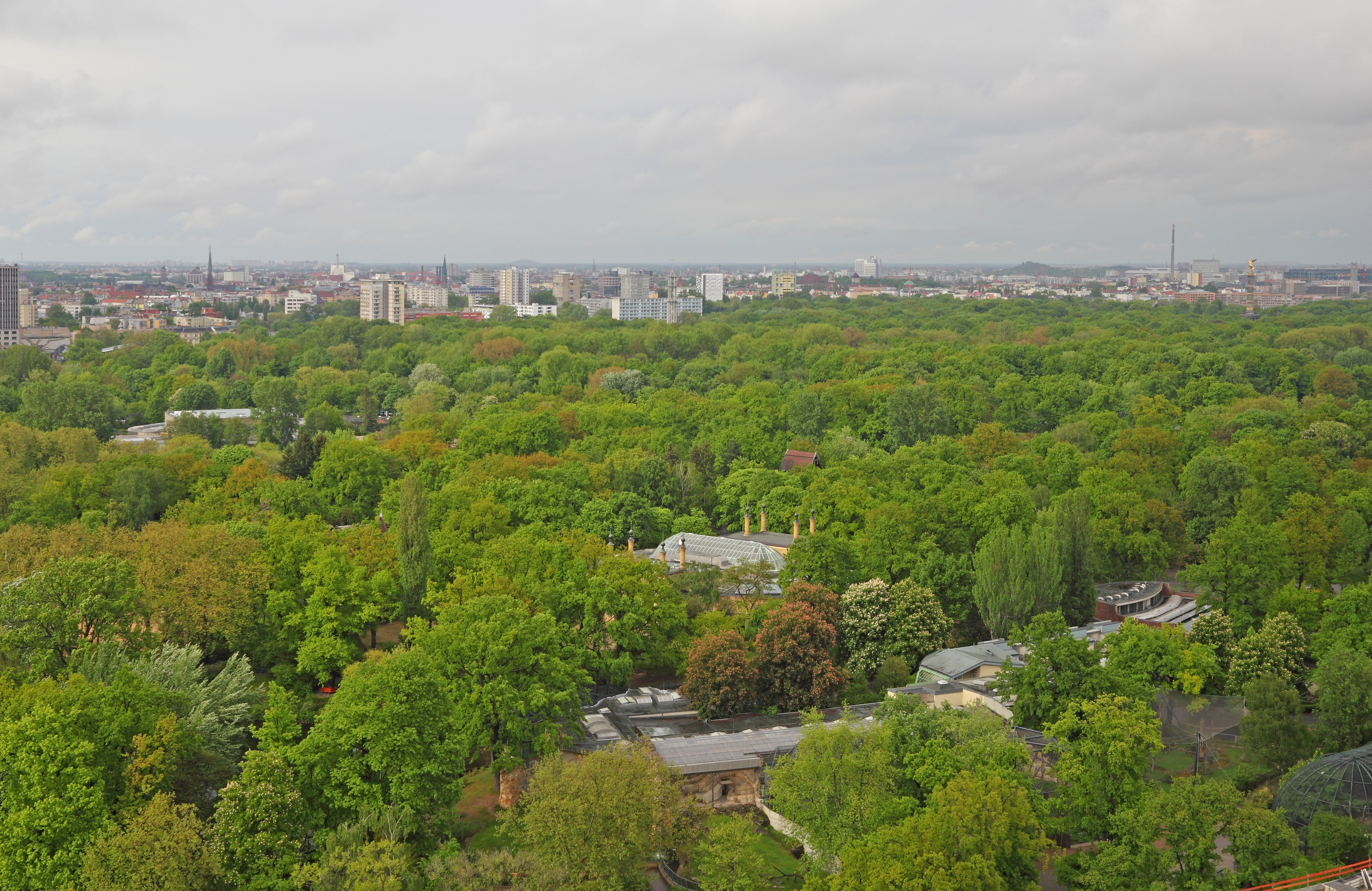 Views from the scaffolds of the Kaiser Wilhelm Memory Church. Berlin-Charlottenburg.